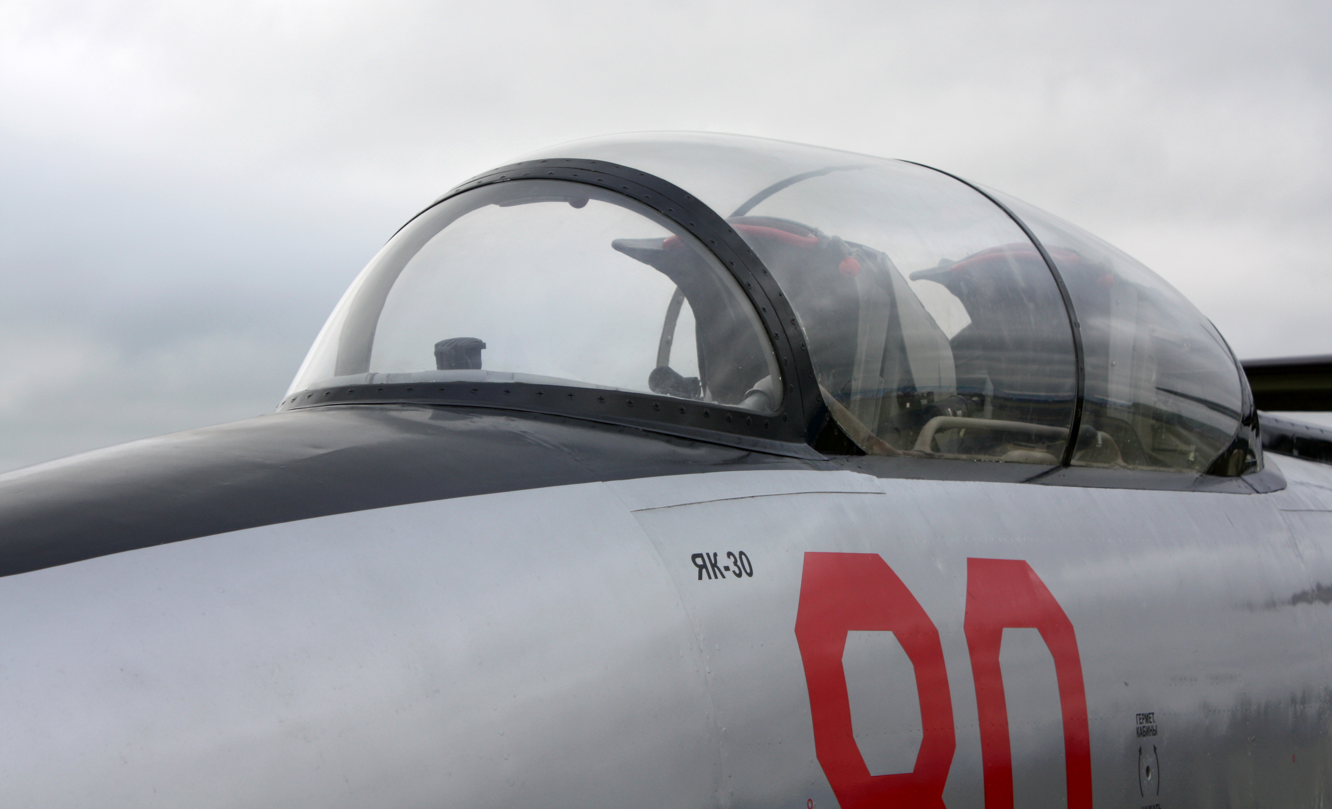 Yakovlev Yak-30 (The international aerospace salon MAKS-2009)